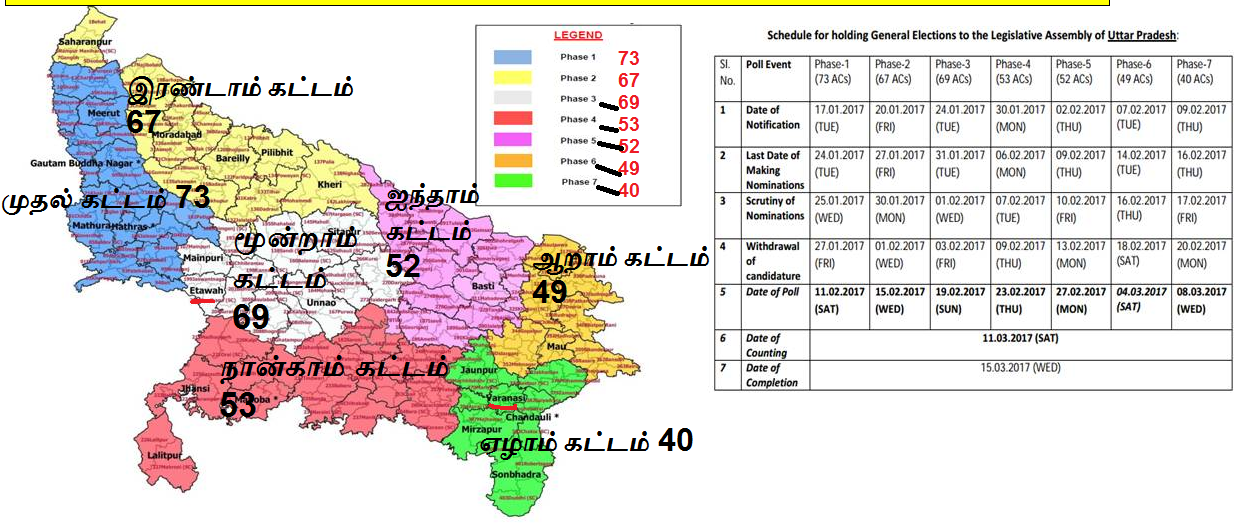 Election Phase 1 to 7 - no of seats